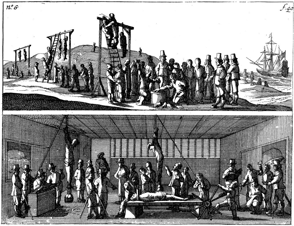 This is an image of Plate 6 from the 1647 Dutch book Ongeluckige voyagie, van't schip Batavia ("Unlucky voyage of the ship Batavia"). In the original work this plate followed Page 40.